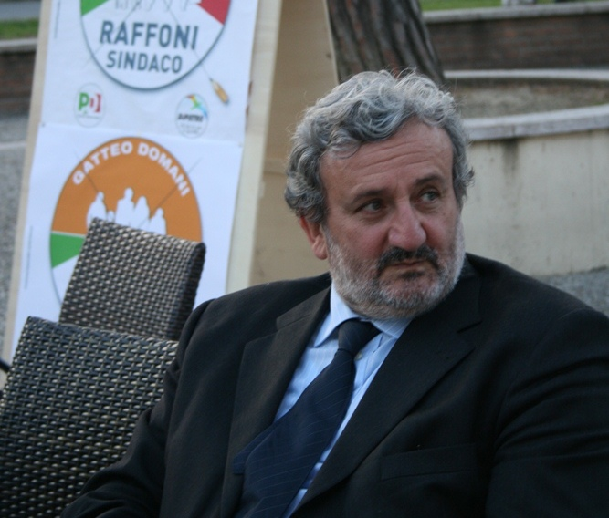 Michele Emiliano in 2011